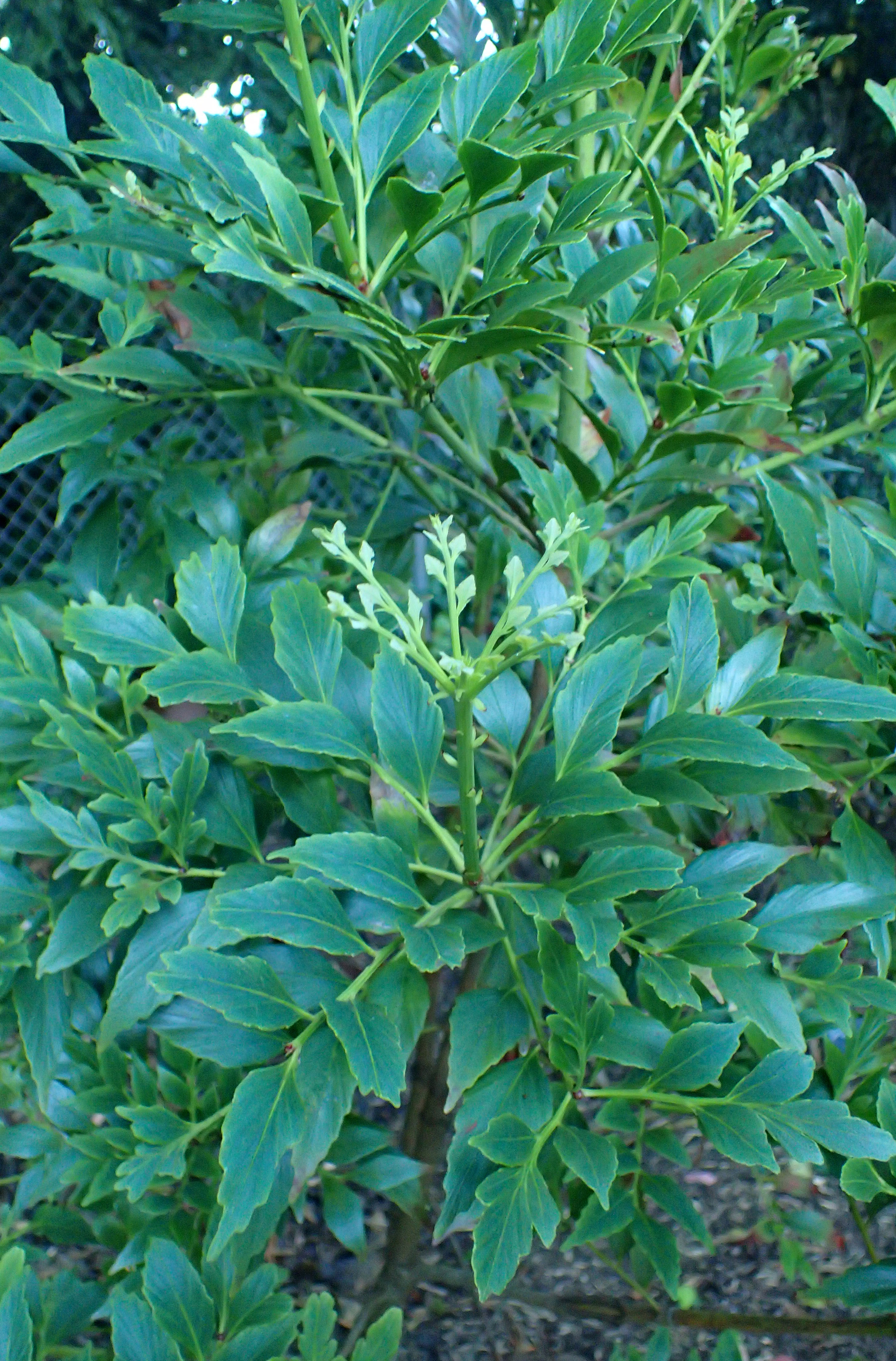 Phyllocladus hypophyllus in the San Francisco Botanical Garden